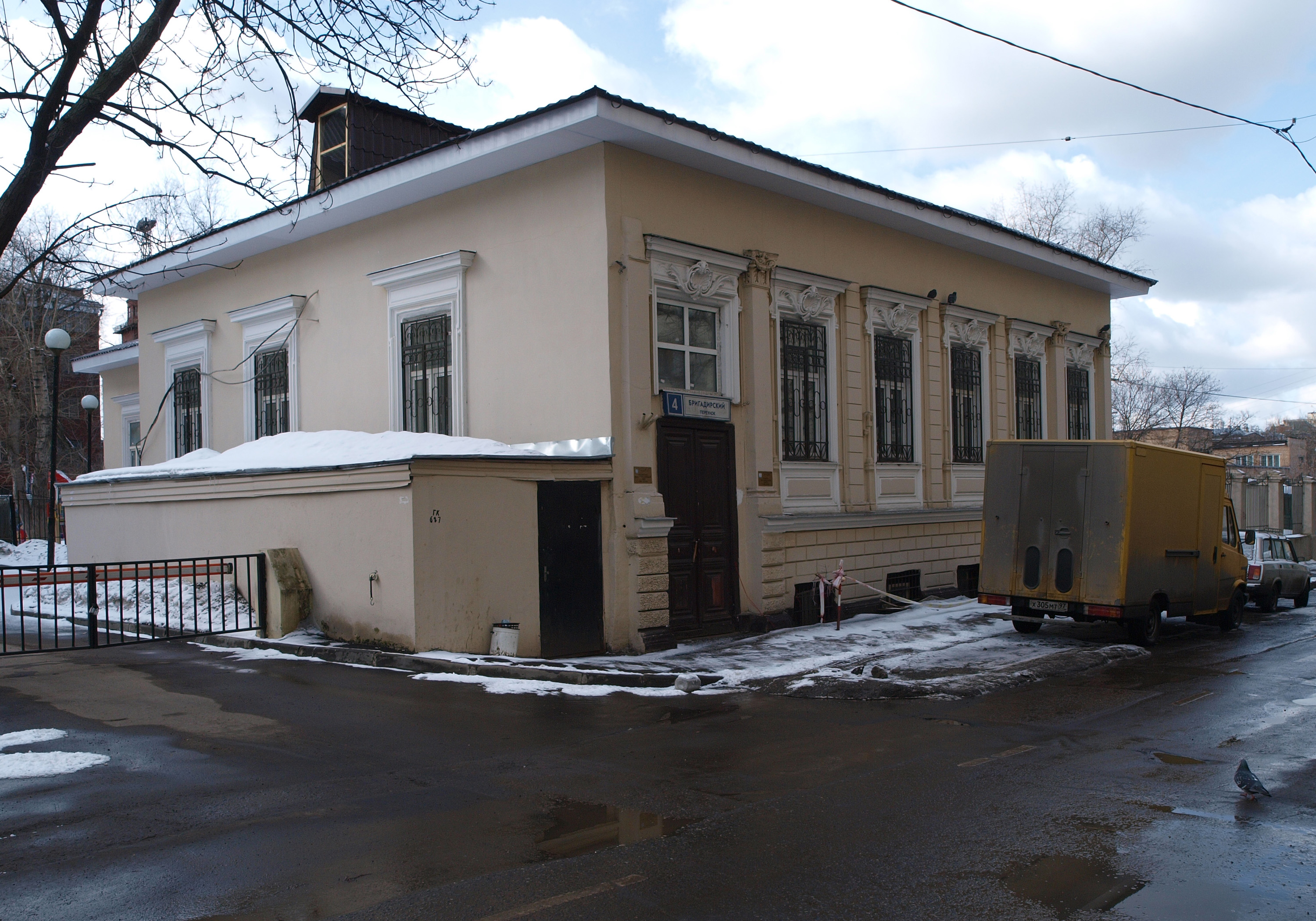 Brigadirsky Lane, Moscow